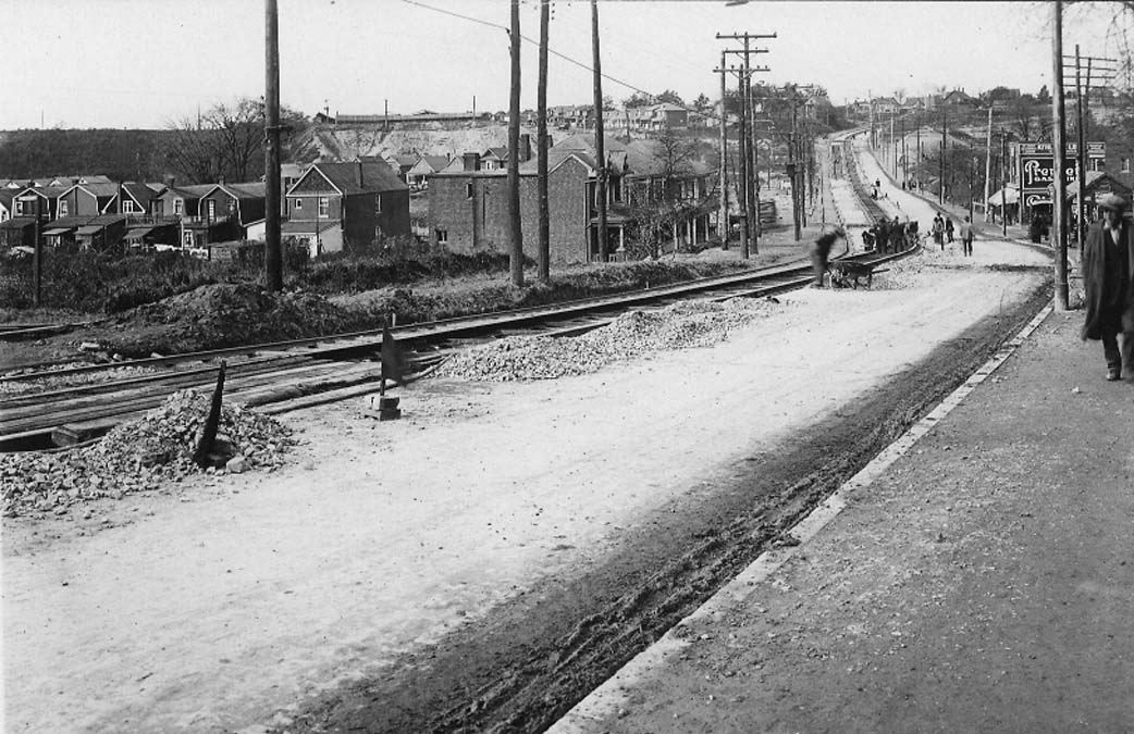 York Township, Weston Road, north of Rogers Road, looking north. Now Toronto, Canada.